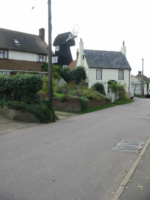 Photograph of house converted windmill